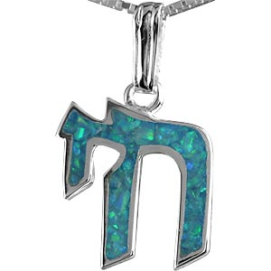 Jewish Life Pendant Called Hai or Chai is a good luck charm and viewed at . Can be found and purchased at